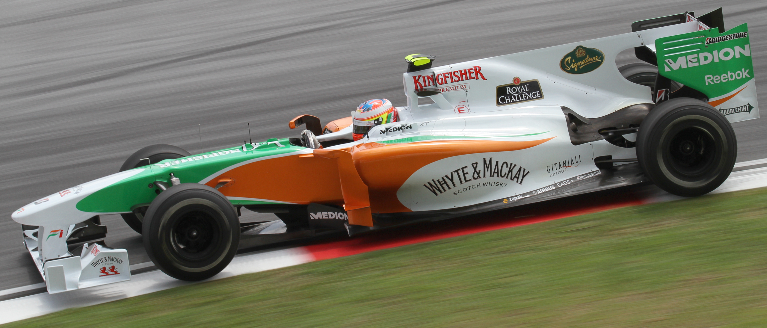 Formula One 2010 Rd.3 Malaysian GP: Paul di Resta (Force India) during Friday 1st Free Practice session.